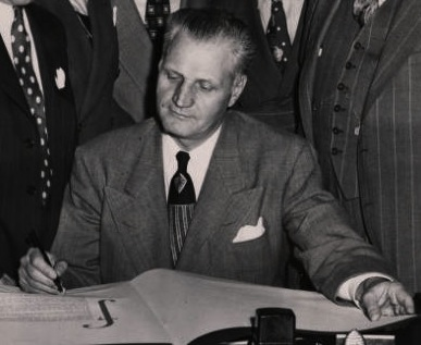 Governor Youngdahl is signing the Book of Remembrance. A Book of Remembrance commemorates those who have died in a particular location or time period. Date: 1949-04-29 Source: 24 cm x 19.5 cm Format: Black and white photo Subject: Religion; Jews and Politics; Youngdahl, Luther; Coverage: St. Paul; Ramsey; Minnesota; United States Local Identifier: P247 Link to our record: From the Steinfeldt Photography Collection of the Jewish Historical Society of the Upper Midwest.